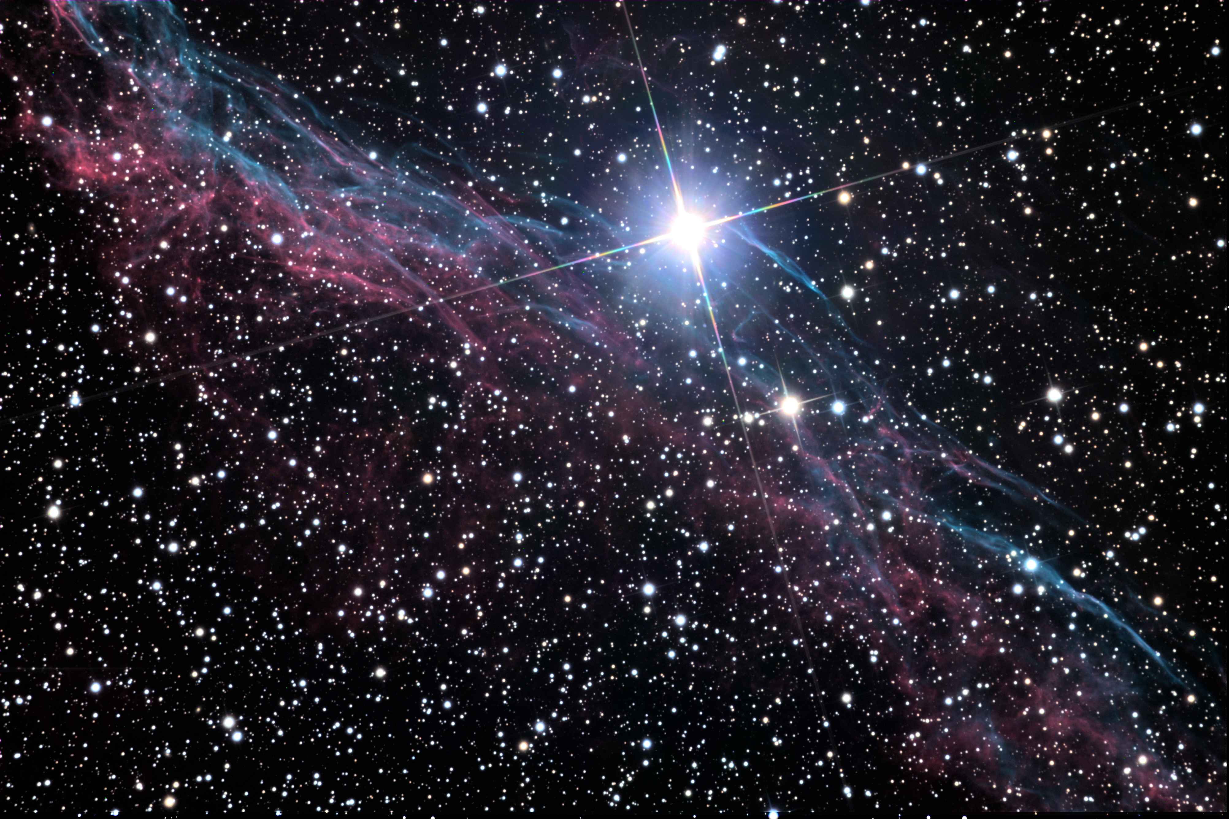 Witch's Broom region of Veil Nebula. 24 inch telescope on Mt. Lemmon, AZ.